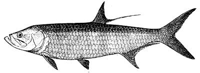 Tarpon, Megalops sp.